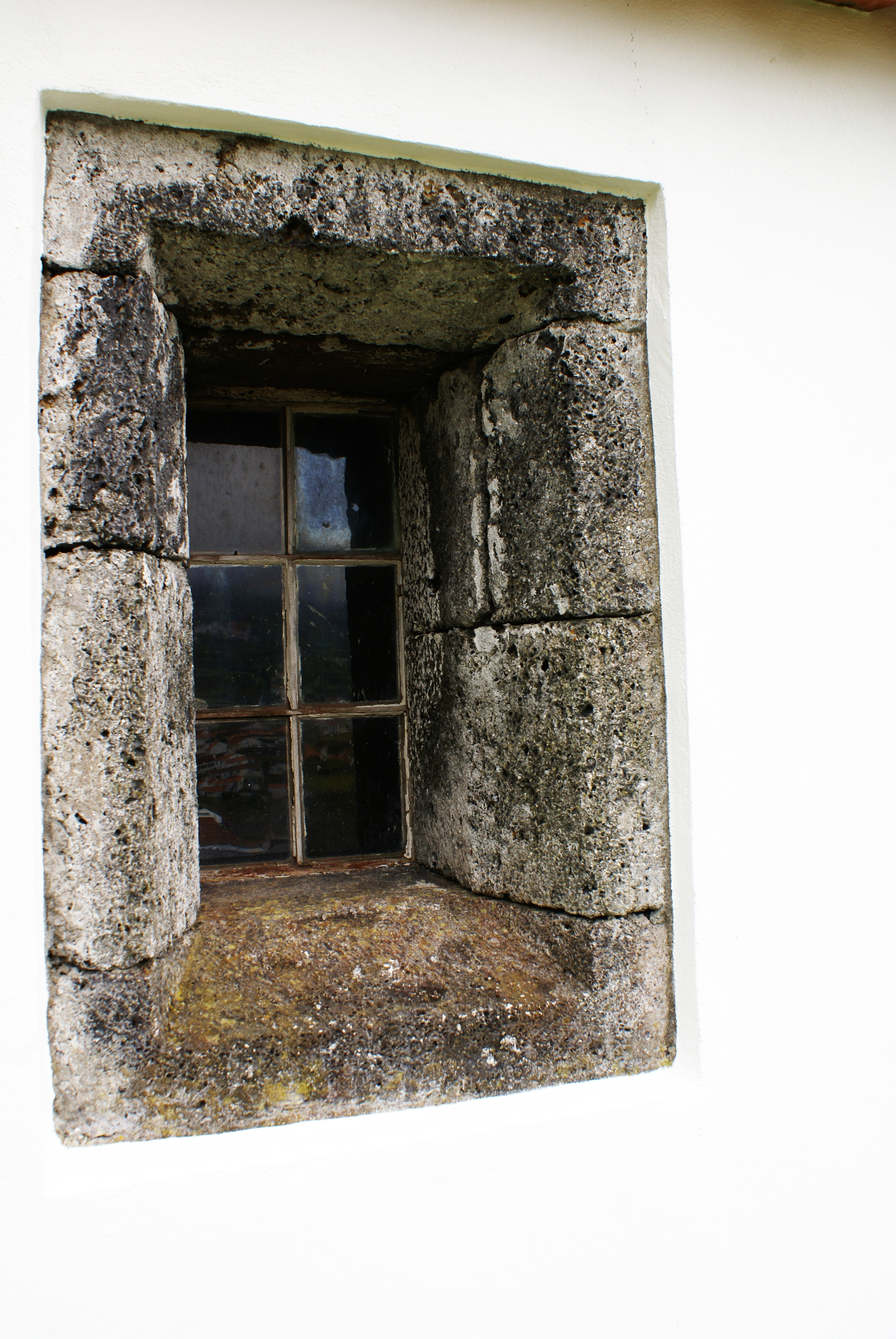 Window detail in the Chapel of Santa Catarina, Lajes do Pico, Pico (Azores), Portugal